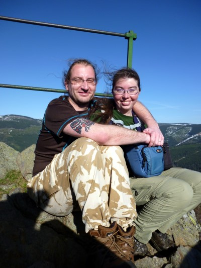 Zbynek K. Holub and his wife and co-author Lucie